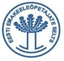 Association of Estonian Language Teachers